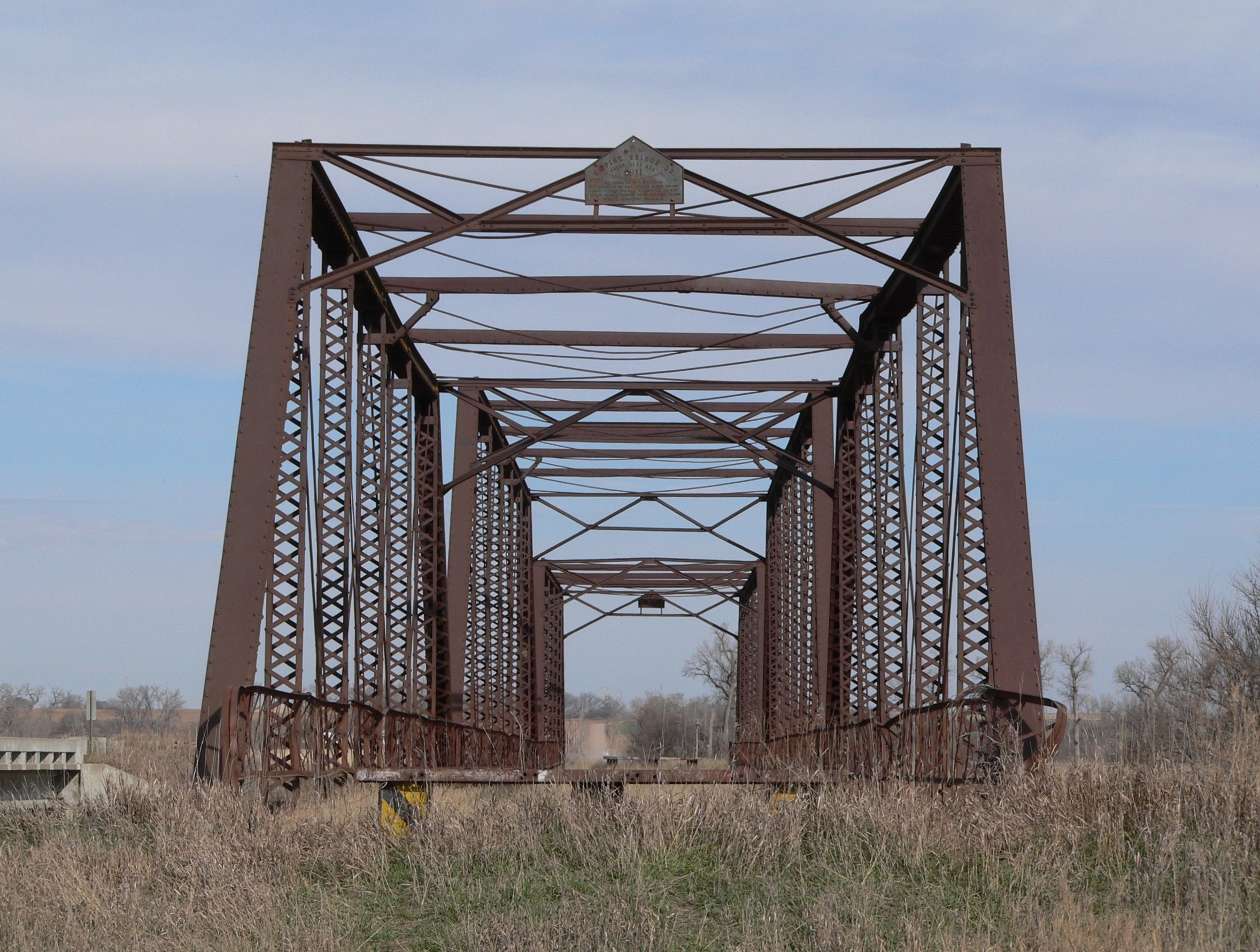 Bridge over the Republican River, located near the intersection of county roads 43 and EF in Franklin County, Nebraska, southeast of Riverton. The 3-span pin-jointed Pratt through truss bridge was constructed in 1911 by the Empire Bridge Company of Falls City, Nebraska. It is listed in the National Register of Historic Places. The bridge no longer carries vehicular traffic; county road 43 now crosses the river on a concrete bridge just west (upstream). In the photo, the bridge is viewed from the south; part of the modern bridge is visible at left.